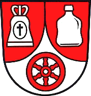 Coat of arms of Freienhagen